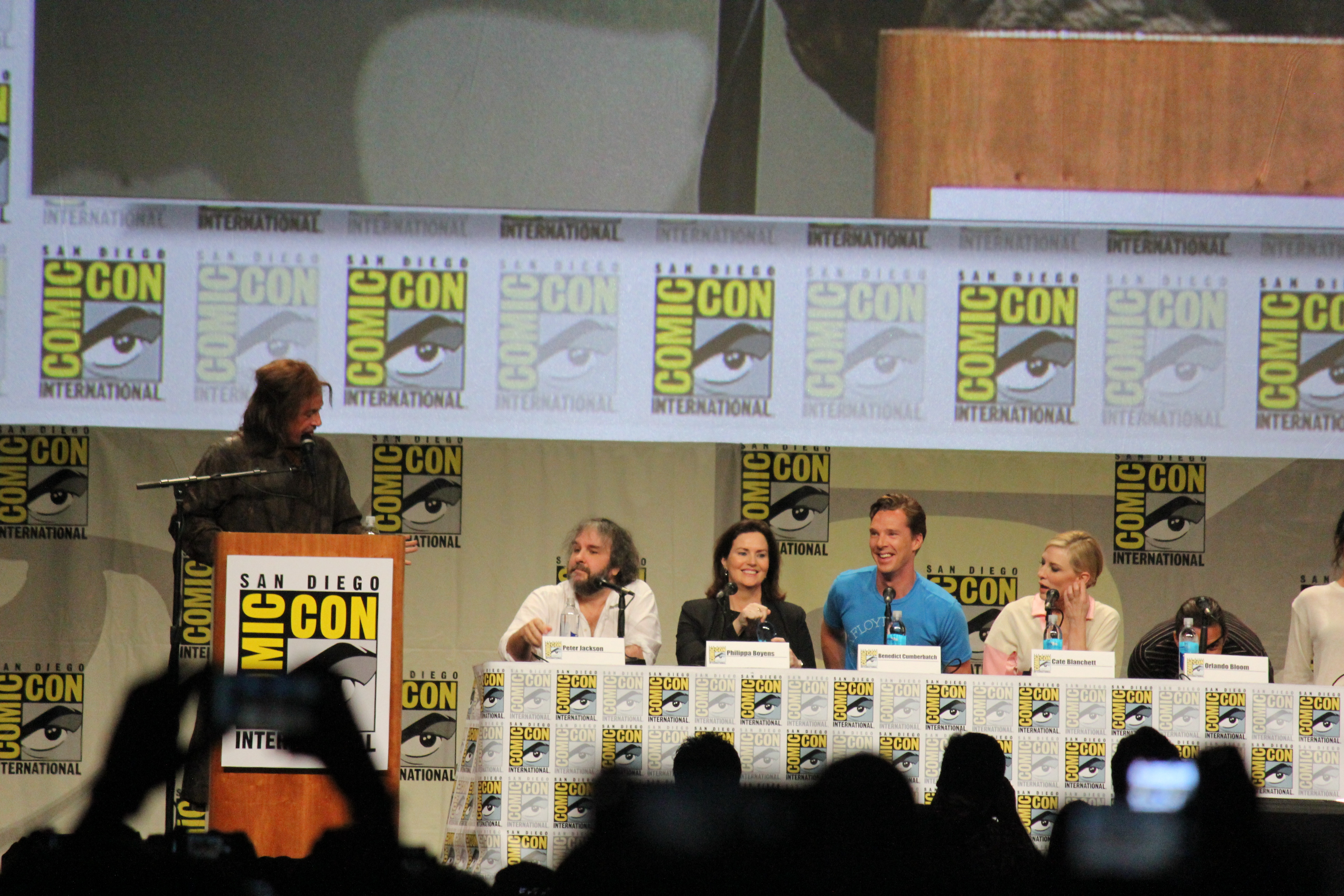 The Hobbit 2 Panel SDCC 2014